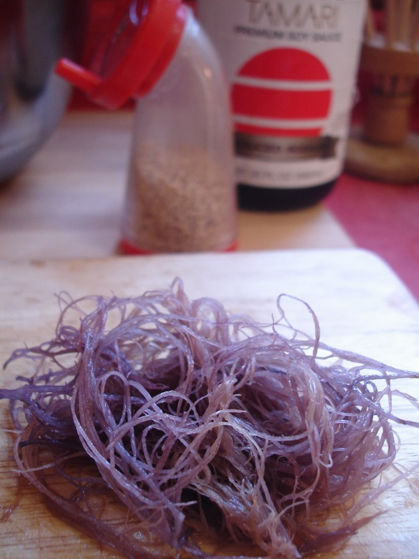 Ogo or Ogonori (Gracilaria spp.) is a type of edible seaweed